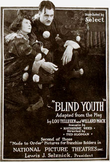 Advertisement for the American drama film Blind Youth (1920) with Leatrice Joy and Walter McGrail, on page 2814 of the March 27, 1920 Motion Picture News.